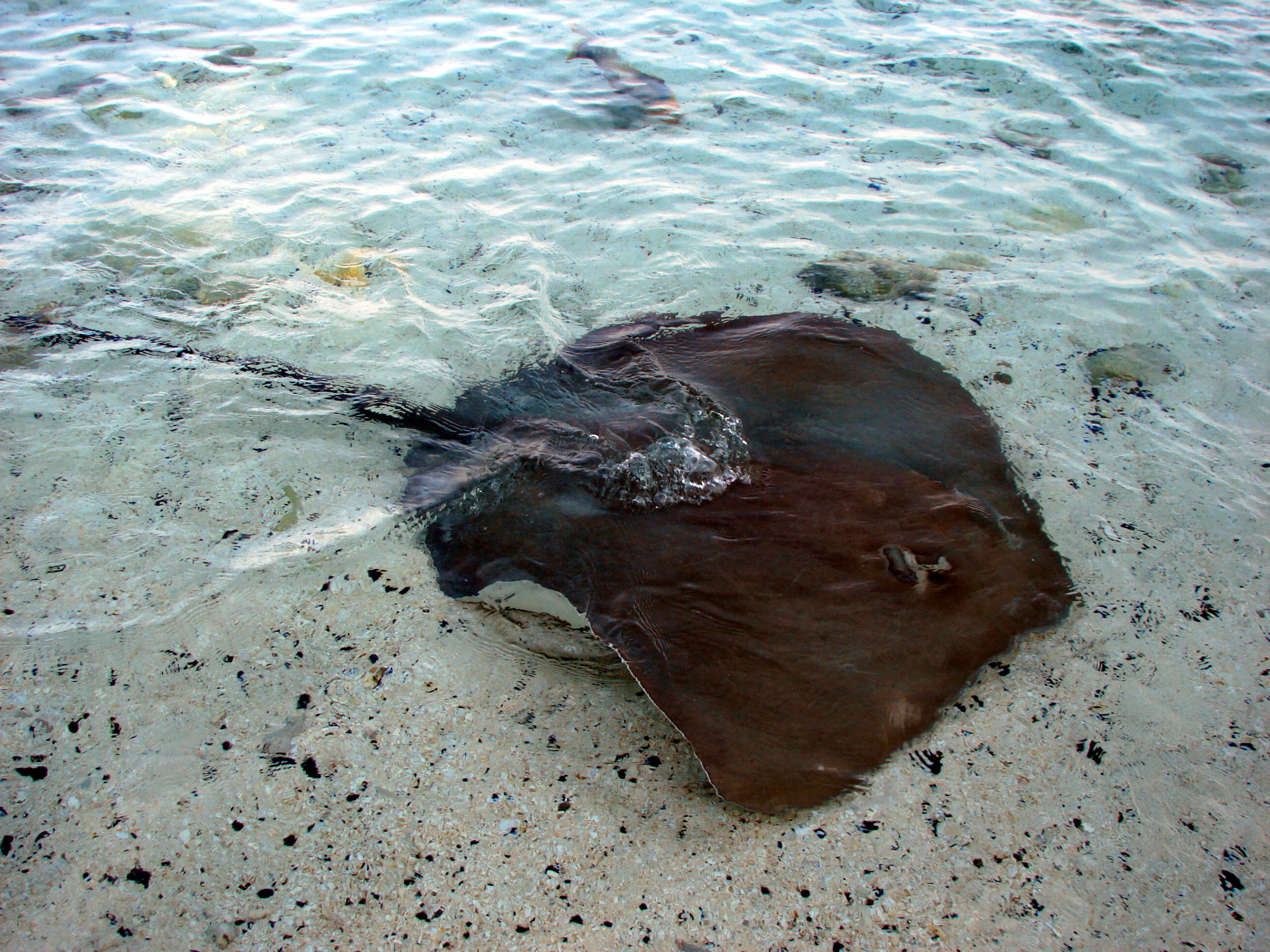 Jenkins' whipray (Himantura jenkinsii) in the Maldives.